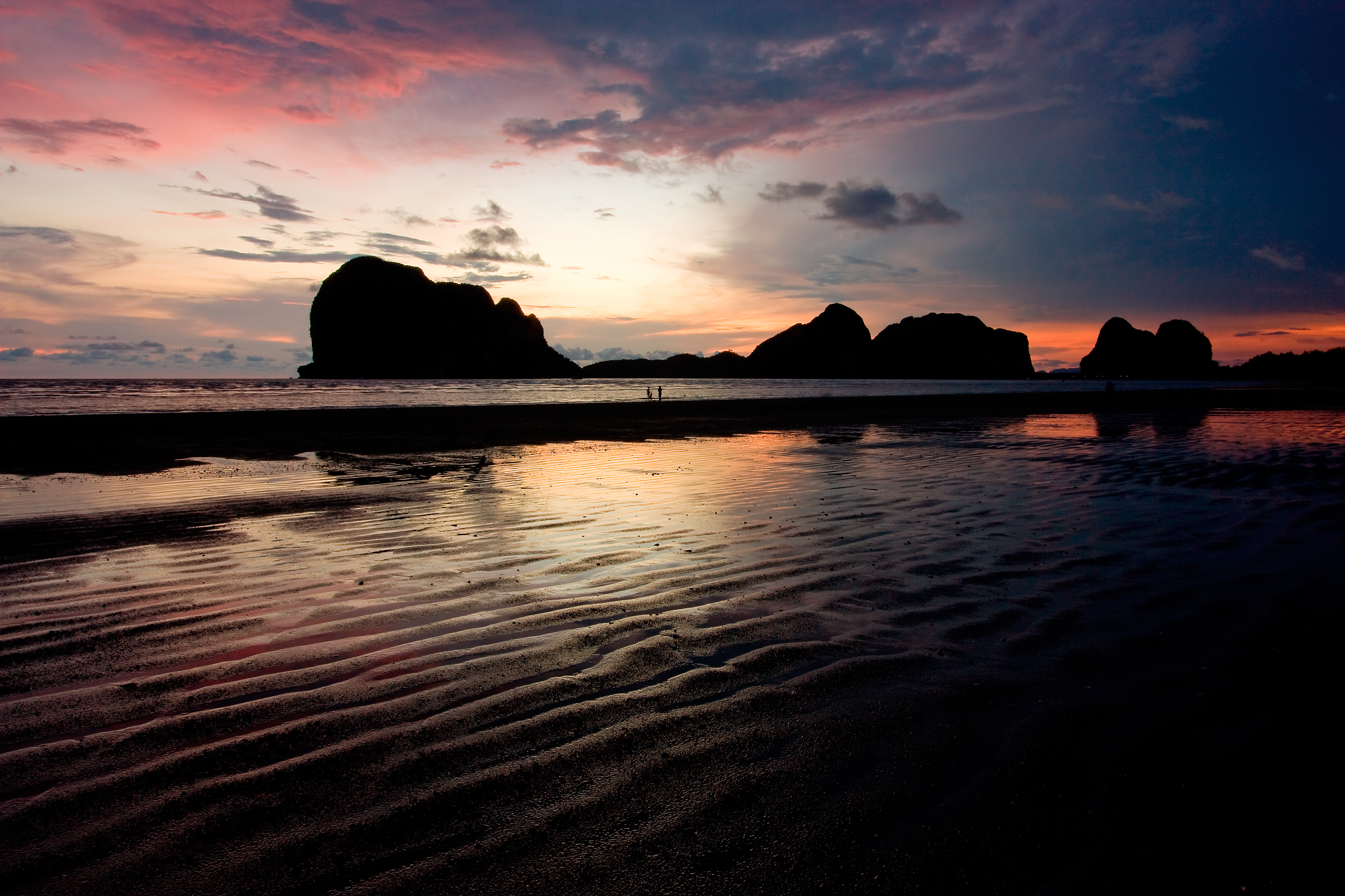 อุทยานแห่งชาติหาดเจ้าไหม